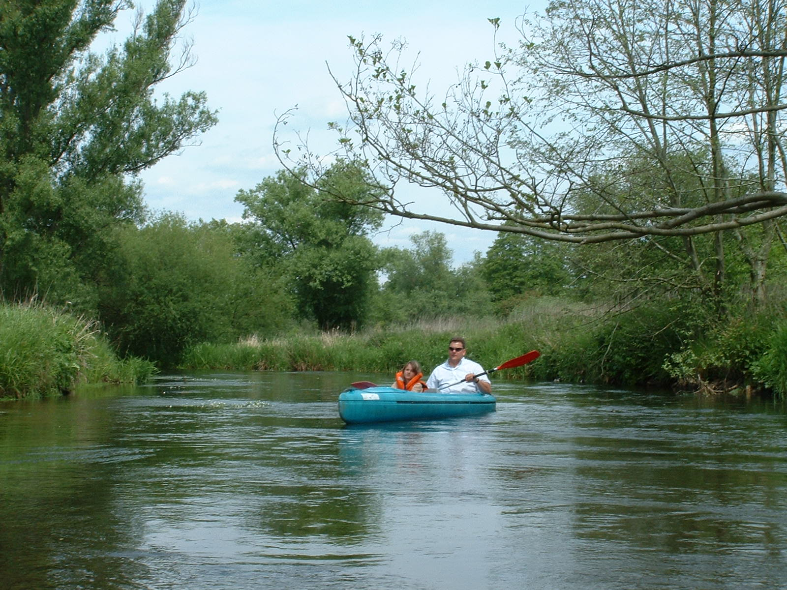 Rowing boat on the Örtze, Lower Saxony, Germany